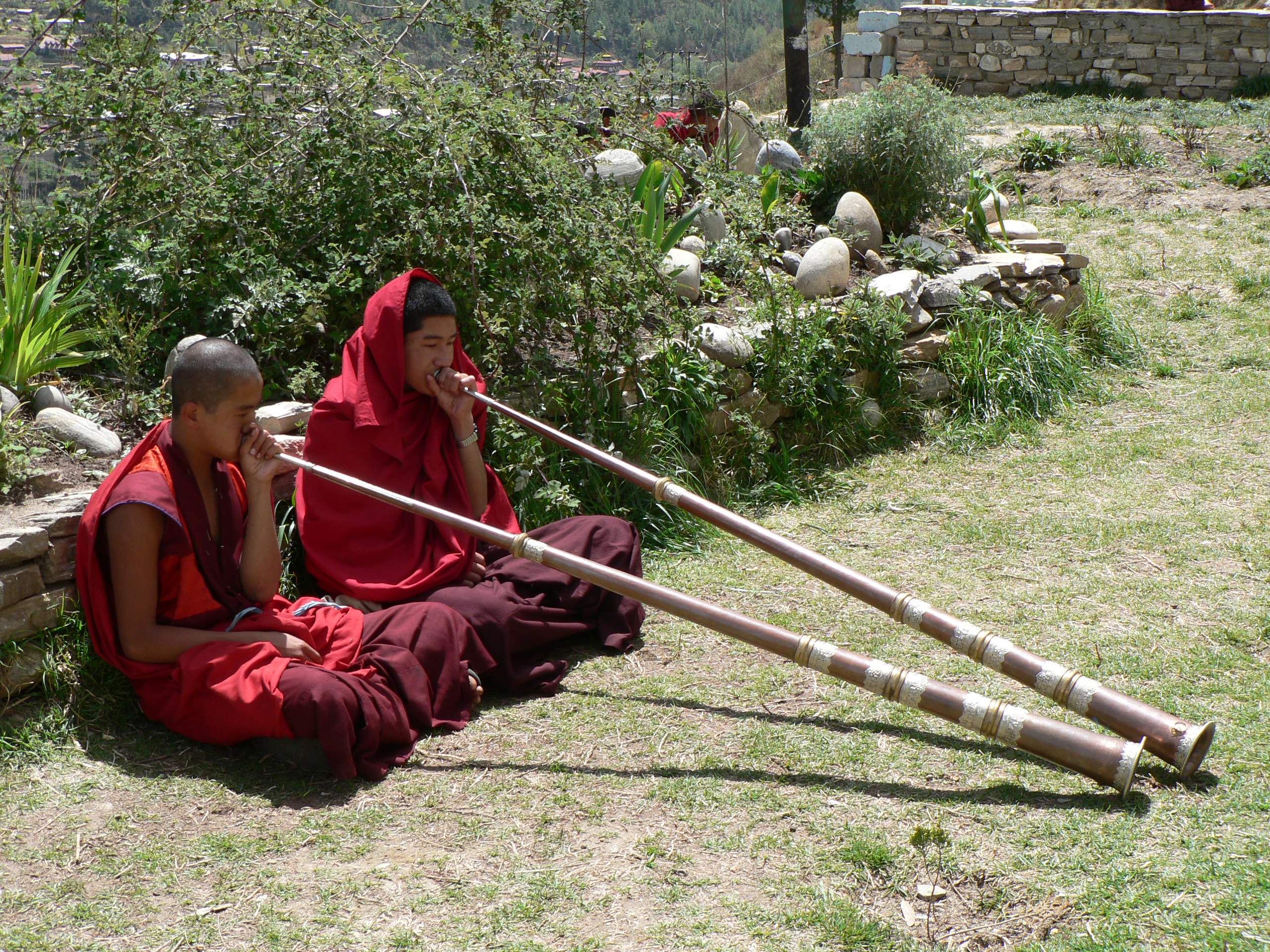 Monks practicing playing ritual horns.